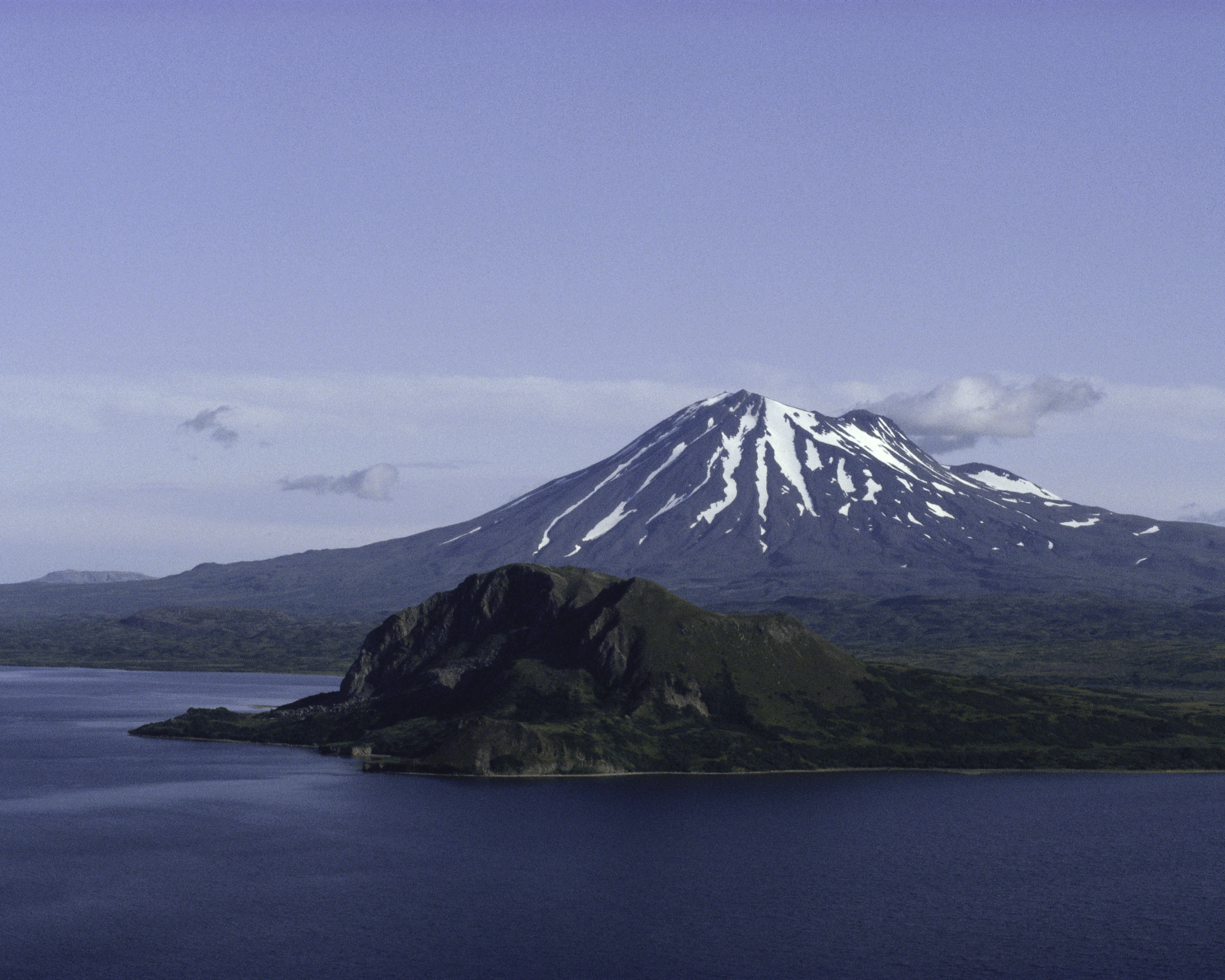 The Peulik volcano (background) and Becharof Lake (foreground), in the Becharof National Wildlife Refuge what lays in Alaska.